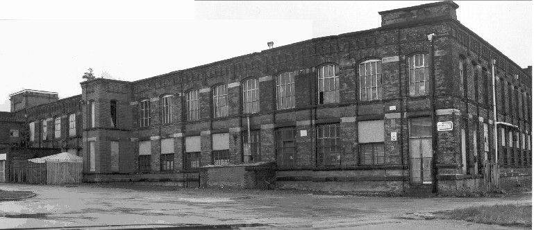 Image taken by uploader in 2006. Greyscale as the colour version took too much space.